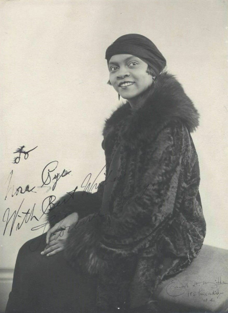 Florence Mills by her relative Ernest H. Mills. A 6x8 inch photo signed in black ink by Florence Mills